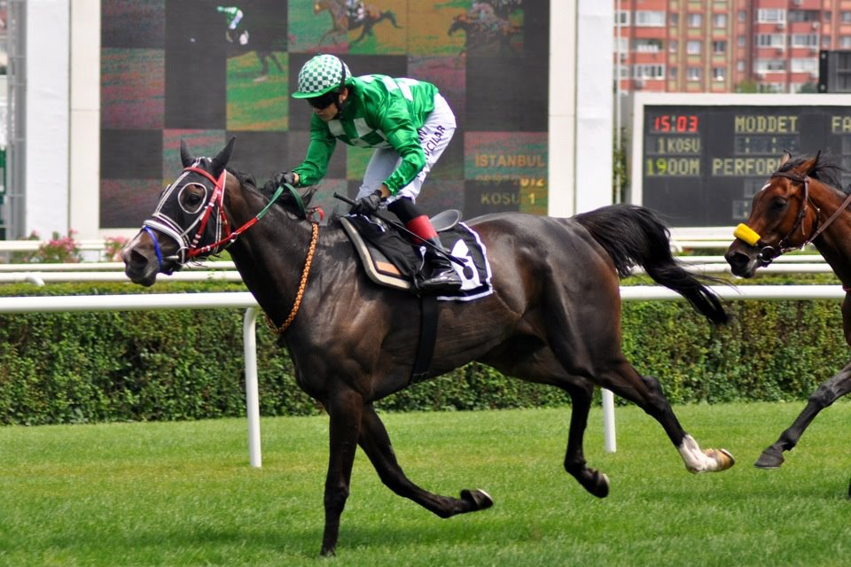 Turkish Jockey Yasin Pilavcılar